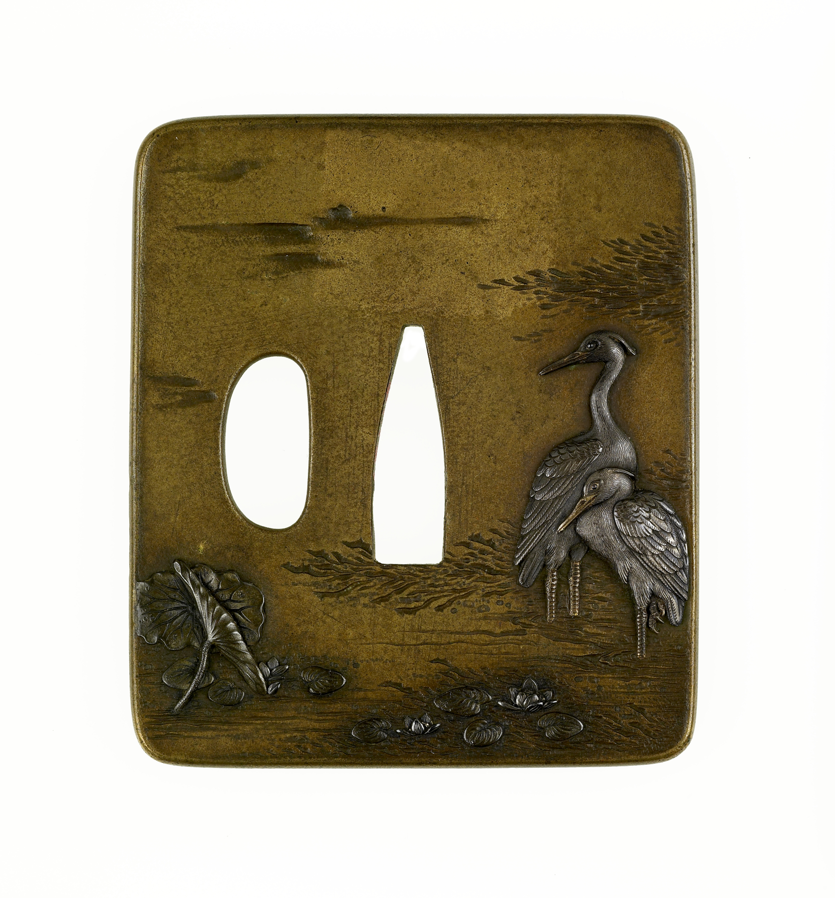 On this tsuba, two heron stand in a lotus pond. The large lotus petals are visible on the left. There is at least one other tsuba like this by Mitsuhiro and one by his father Mitsuoki. The inscription says that the design is after one by the 10th-century Chinese painter Hsu Hsi. This may be a reference to paintings by Hsu Hsi of herons and lotus plants in Japanese temple collections, but the composition does not match any known paintings.